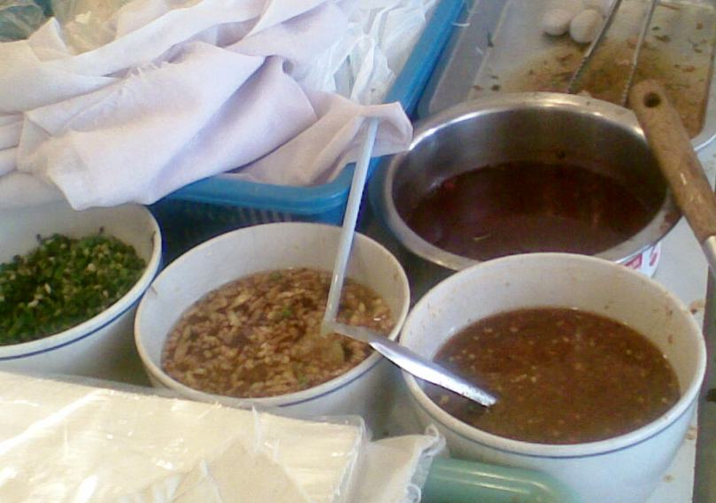 Namtok-noodle ingredients. The upper left pot has raw pig's blood